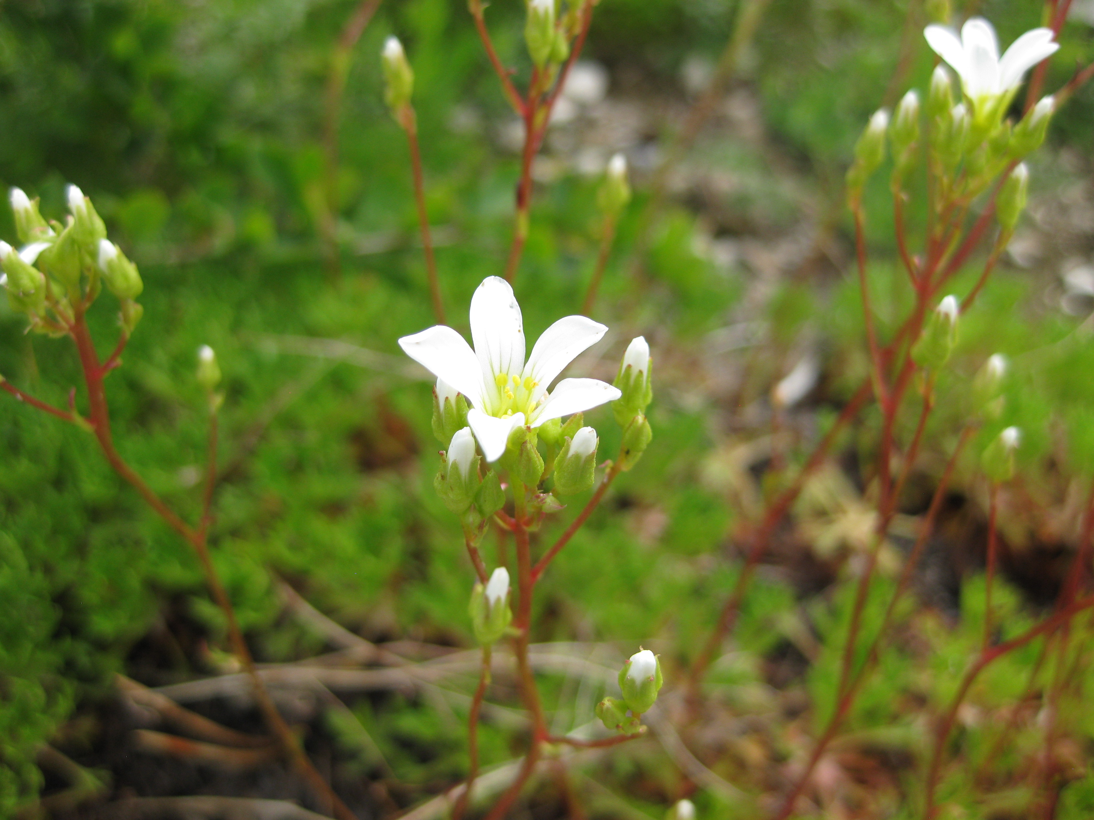 Saxifraga canaliculata in the Jardin Botanique Alpin du Lautaret